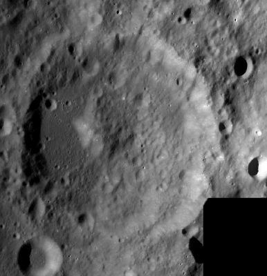 Sierpinski lunar crater. LROC mosaic WAC image (No.s M118844365ME and M118837600ME). Calibrated by LROC_WAC_Previewer.